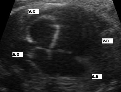 Aortic stenosis: Four chamber view ((Foetus 26 weeks)